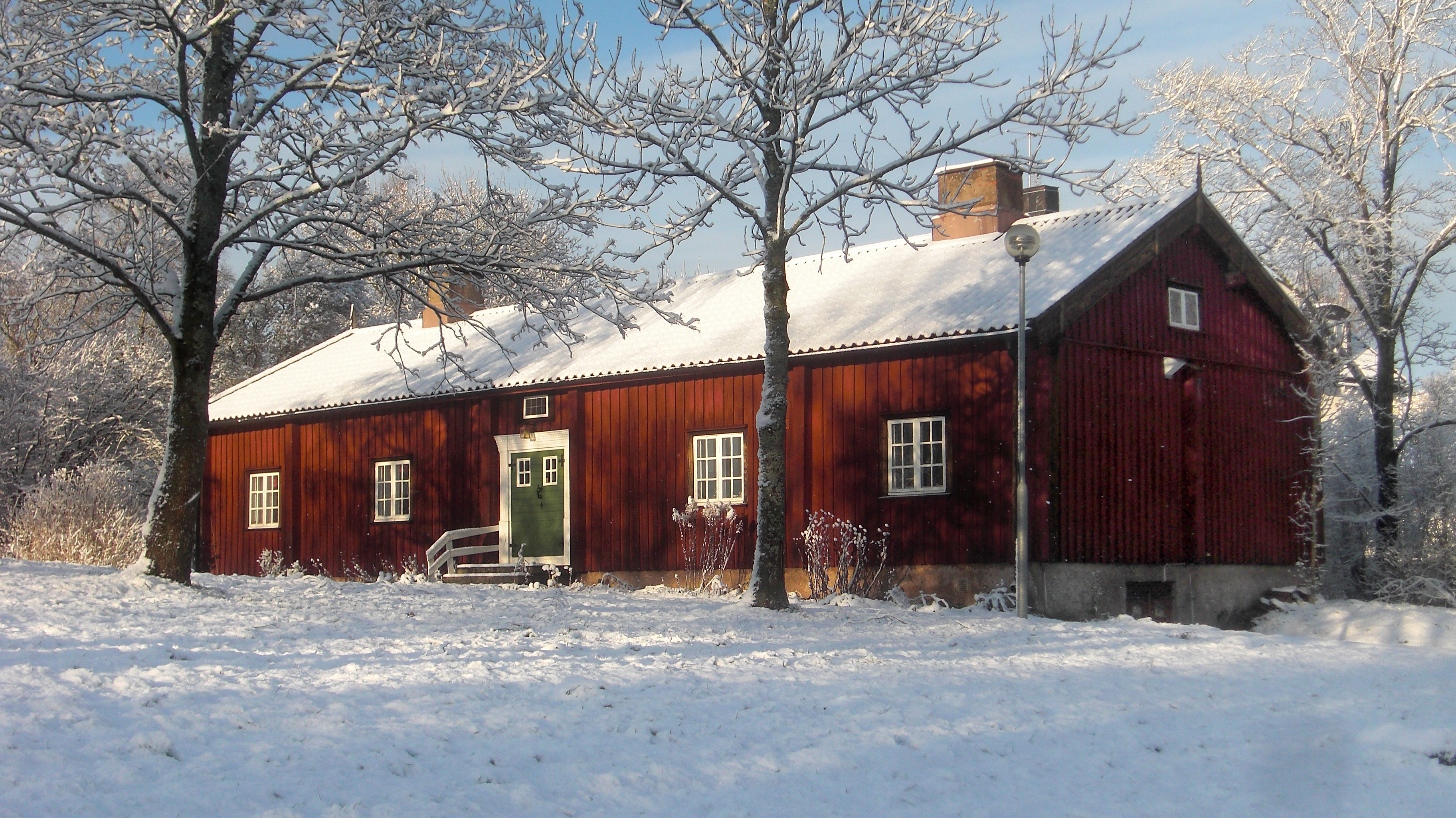 Kavlåsstugan (i.e. the Kavlås Cottage) in the park behind Falbygdens museum in Falköping, former Skaraborg county, Västergötland, Västra Götaland county, Sweden. The oldest parts of the house are from the late 18th century.